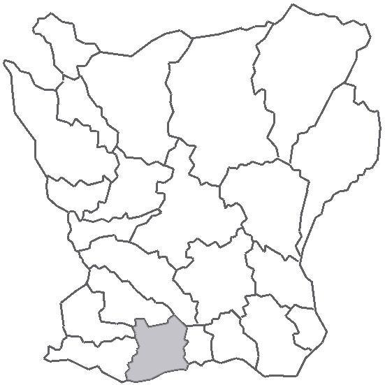 Map describing the location of Vemmenhög Hundred in the province of Skåne, Sweden.